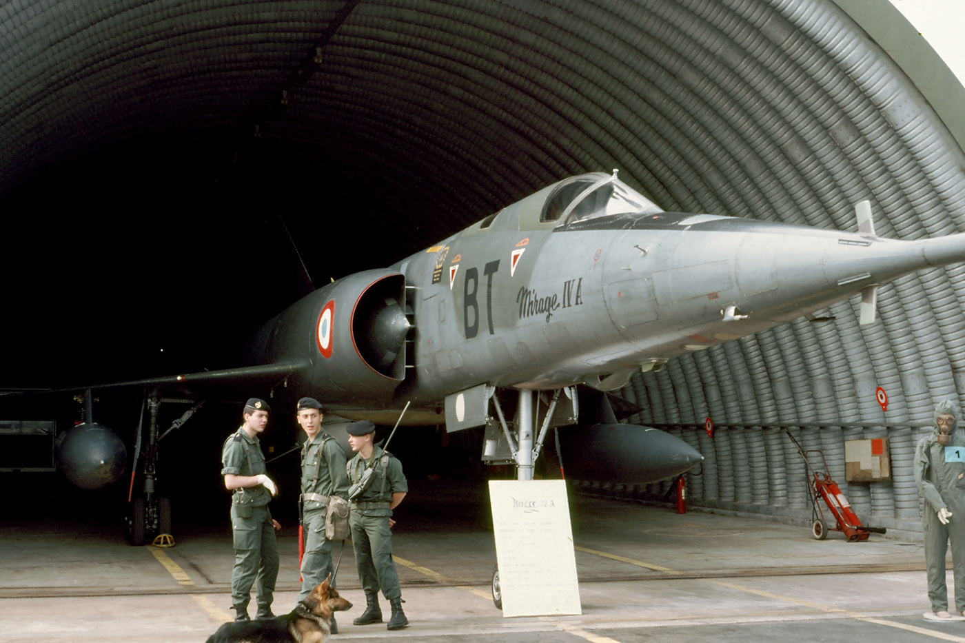 A Mirage IV (47/BT) in the days they were still used as supersonic bombers with a nuclear task. Well guarded during Cambrai open day, 15 June 1986. Under the belly you can see a bomb. 47 is now resting in the scrap area of Chateaudun.